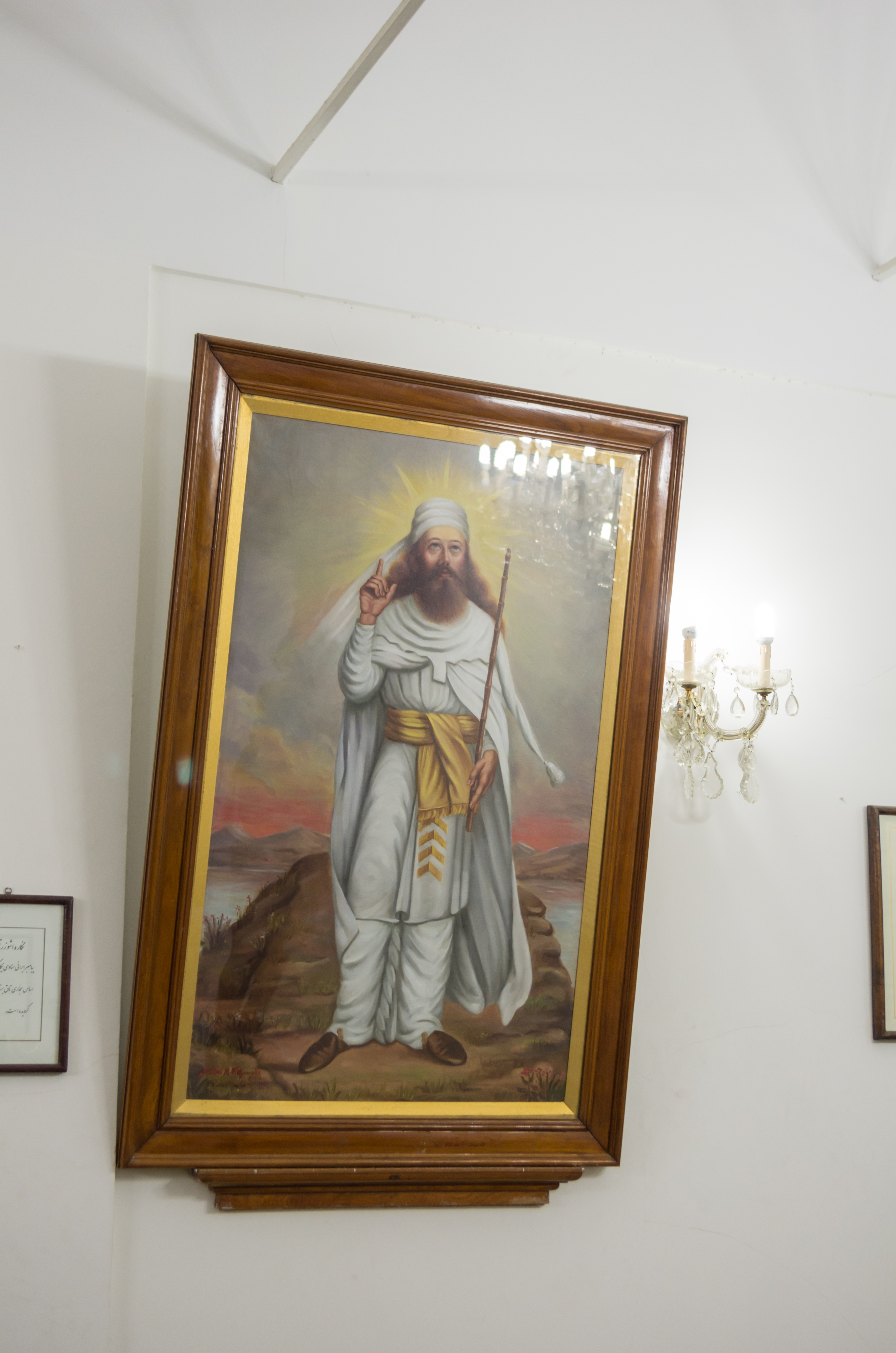 Zoroastrian temple of Yazd